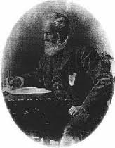 in an 18th century costume.